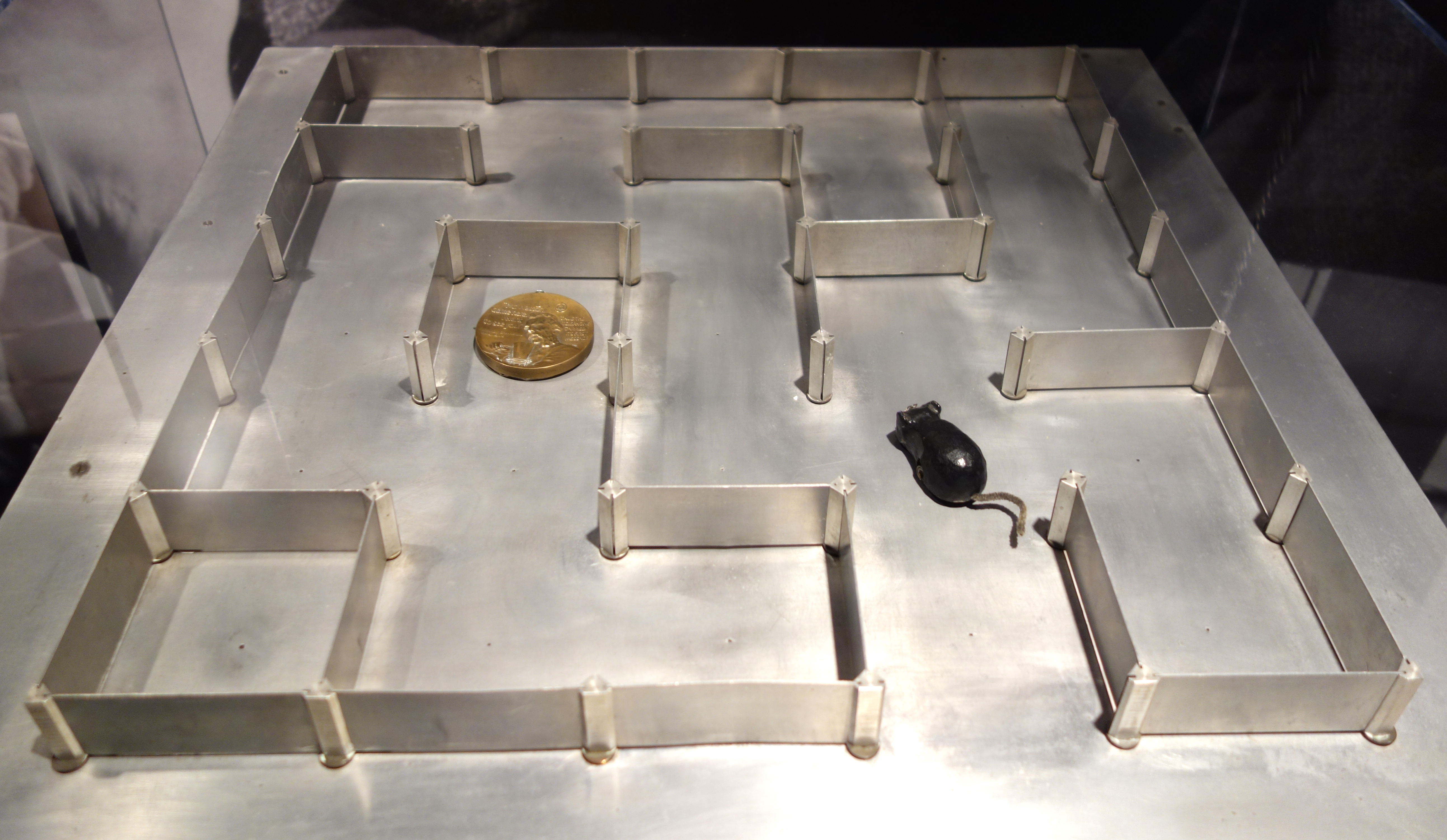 Exhibit in the MIT Museum, MIT, Cambridge, Massachusetts, USA.